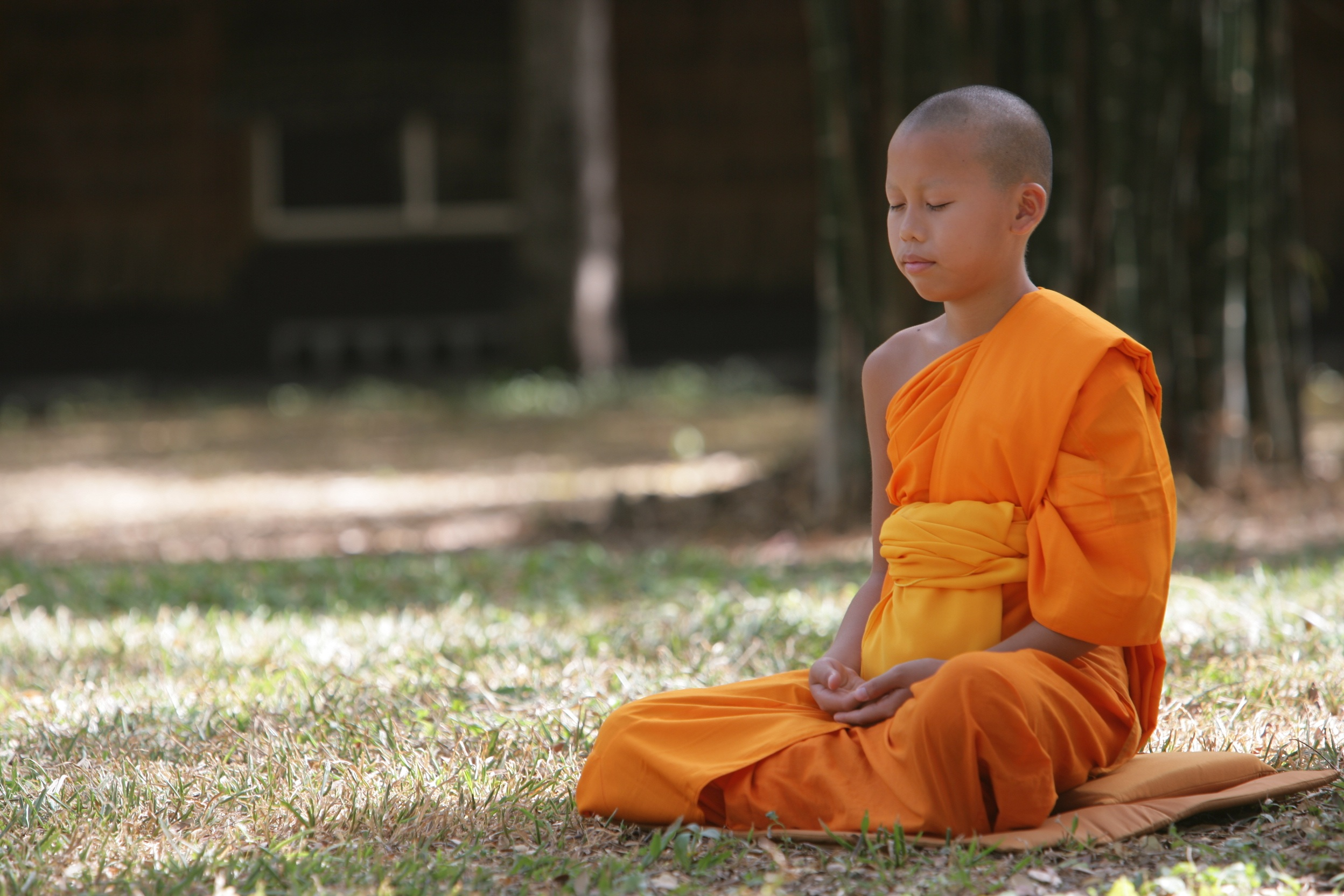 Novice meditating in forest